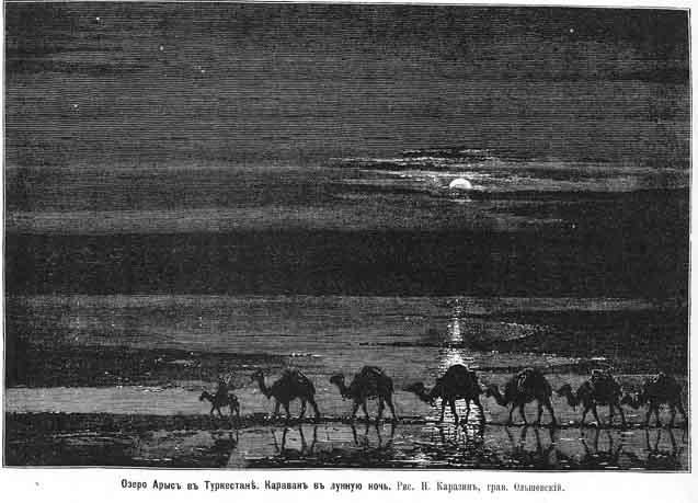 A caravan crossing the shallow Arys lake (now in Kazakhstan) at night (1874)